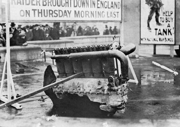 This Mercedes D.IVa - engine of a shot down Gotha bomber was presented to the public after the night raid of December 6th.1917 at Trafalgar Square - London